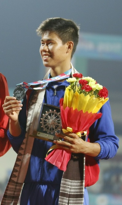 Athletes during 22nd Asian Athletics Championships in Bhubaneswar.